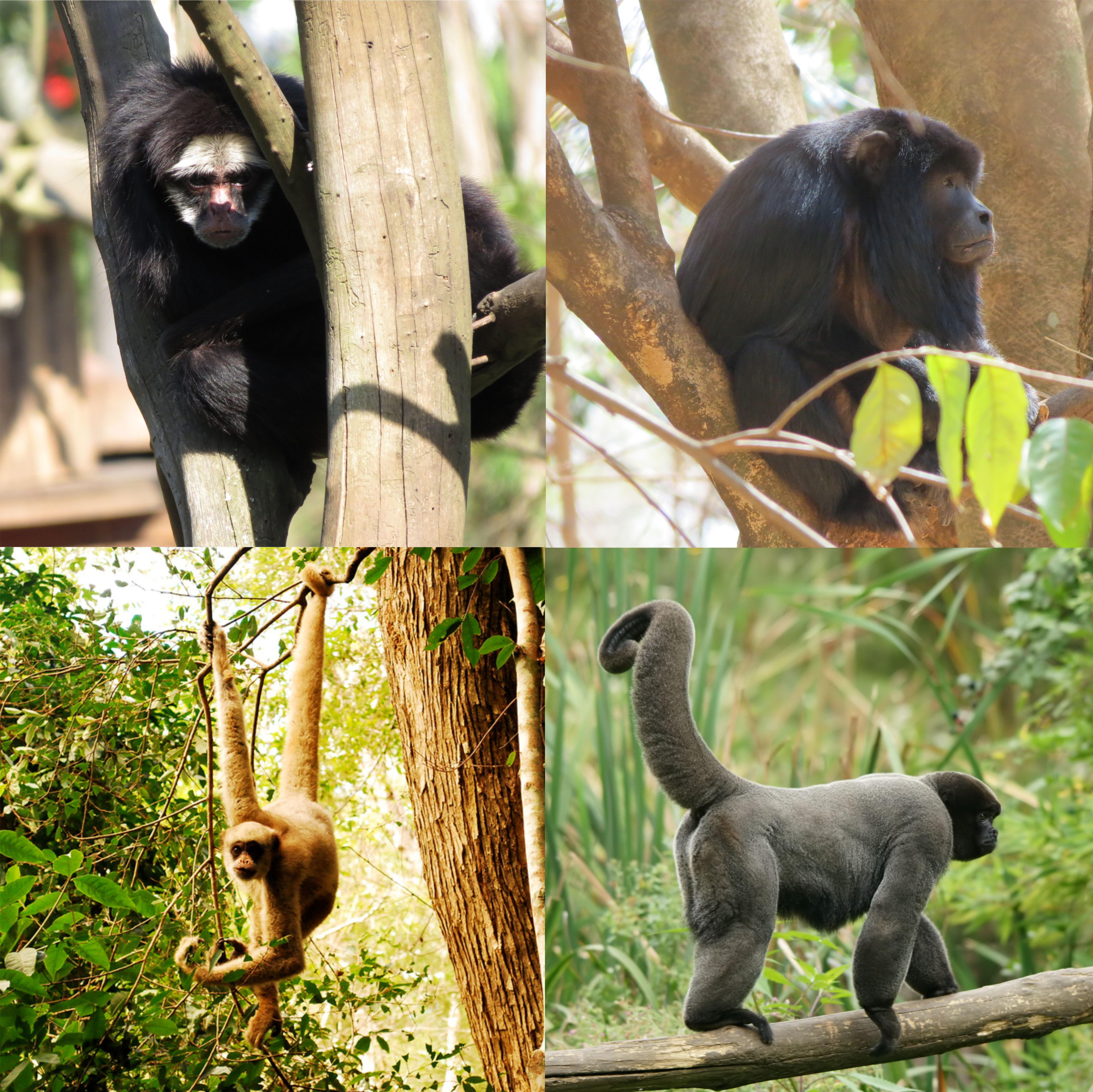 Ateles marginatus in São Paulo Zoo.